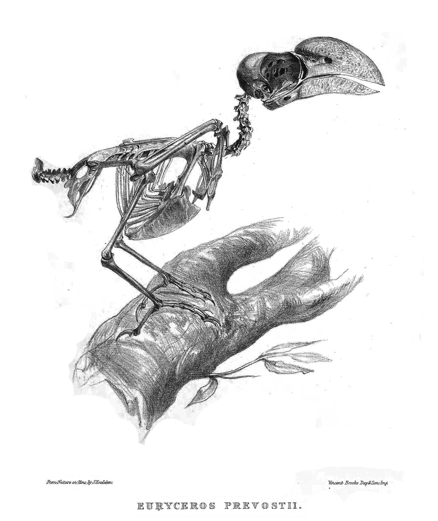 Skeleton of Euryceros prevostii